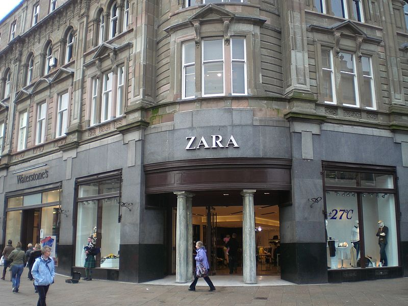 A Zara store in Dundee, Scotland, United Kingdom.